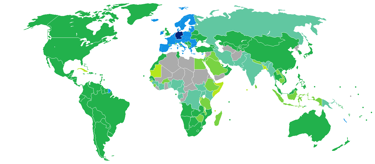 Visa requirements for German citizens Germany Freedom of movement Visa not required Visa on arrival eVisa Visa available both on arrival or online Visa required prior to arrival